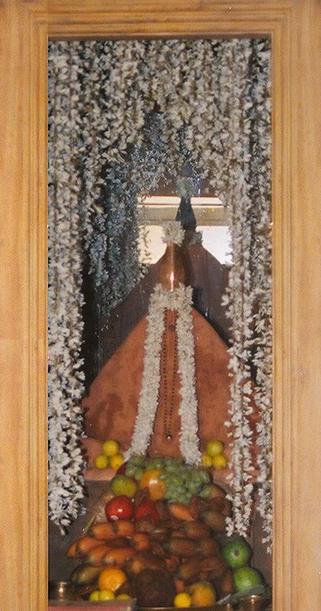 The photograph is the Palliyarai image of Nizhal Thangal of Attoor.